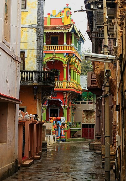 Nagar Seth Haveli